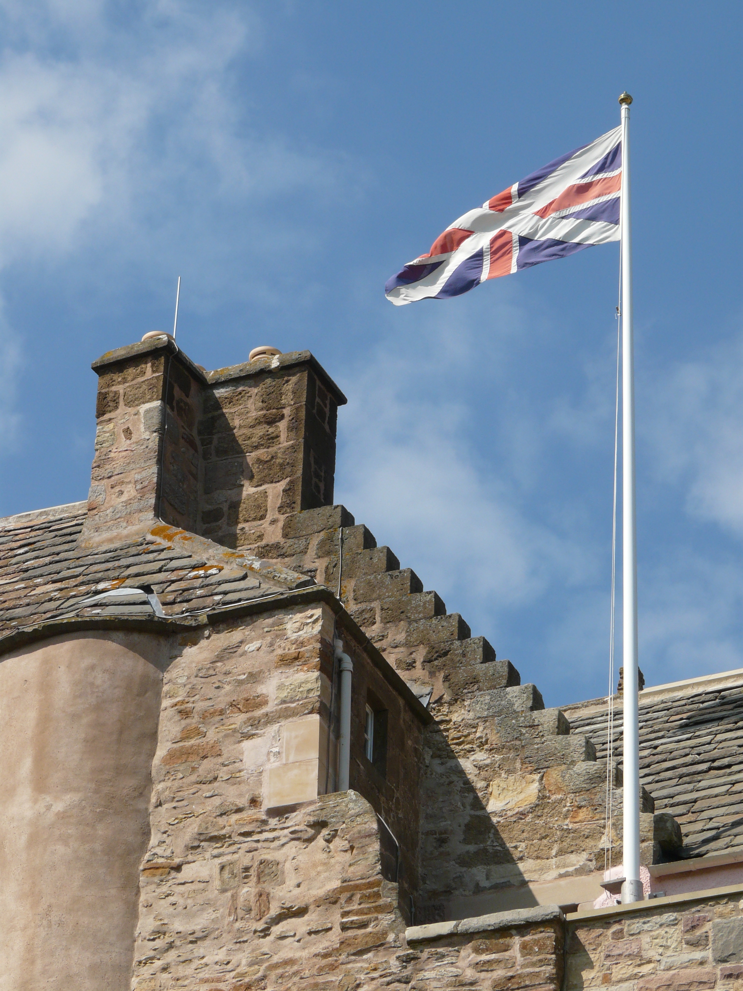 Scottish Union flag flying at Lennoxlove House, Haddington, East Lothian, Scotland